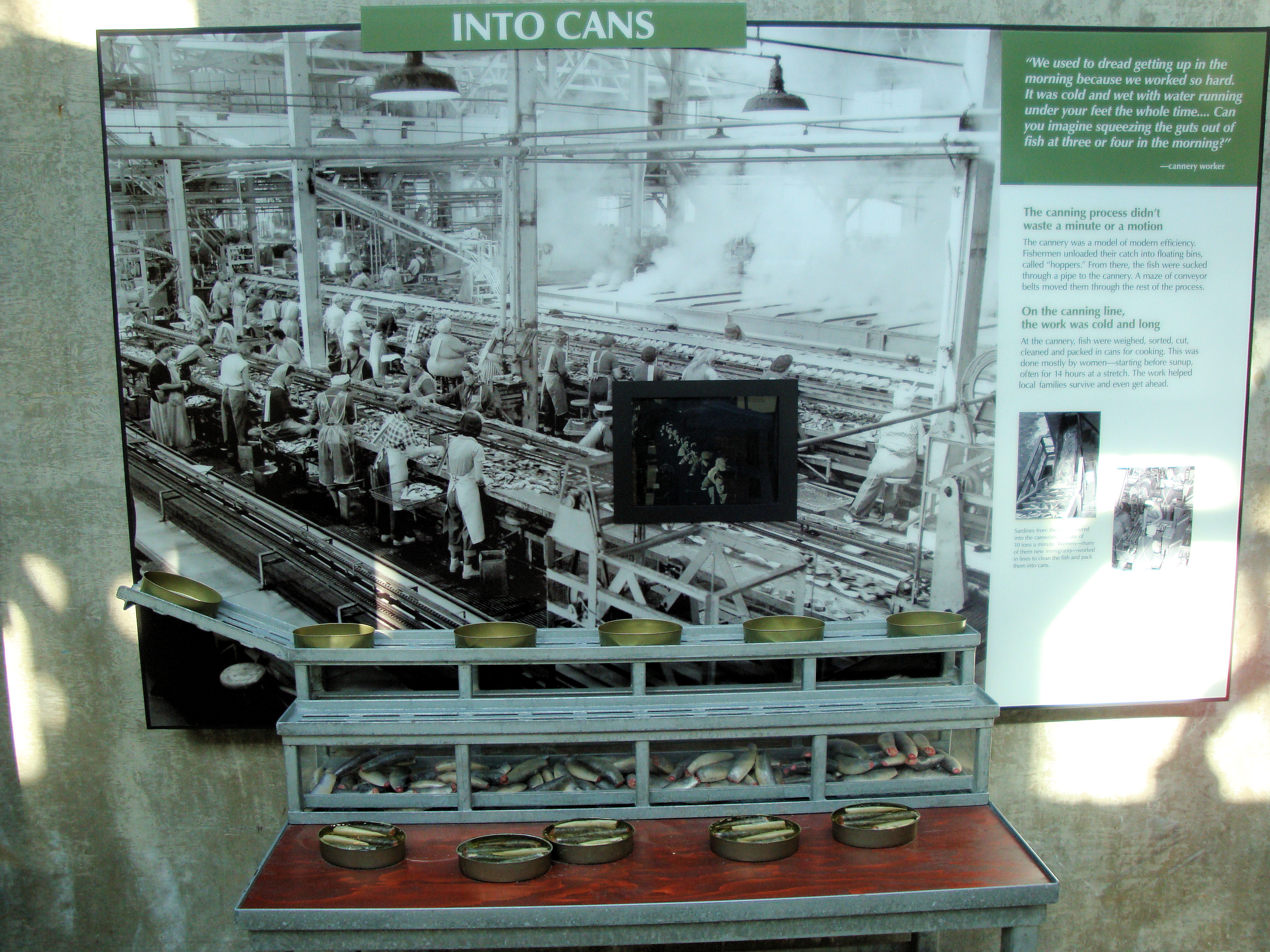 Exhibits at the Monterey Bay Aquarium The stunning one-million-gallon Outer Bay exhibit is home to the largest community of open-ocean animals to be found in any aquarium. Giant bluefin tuna power their way through the water. Hammerhead sharks circle inches away. Sea turtles cruise lazily by. The Outer Bay also features the largest permanent collection of jellyfish species in the United States. Egg-yolk jellies and sea nettles drift gently in ten-foot-long exhibits beautifully lit to accentuate the jellies' delicate beauty. Comb jellies pulse with rainbow bands of light as they swim. In the past, a wonderful exhibit of Jelly Fish and most recently “The Secret Life of Seahorses”; always something exciting to see at the Monterey Bay Aquarium.